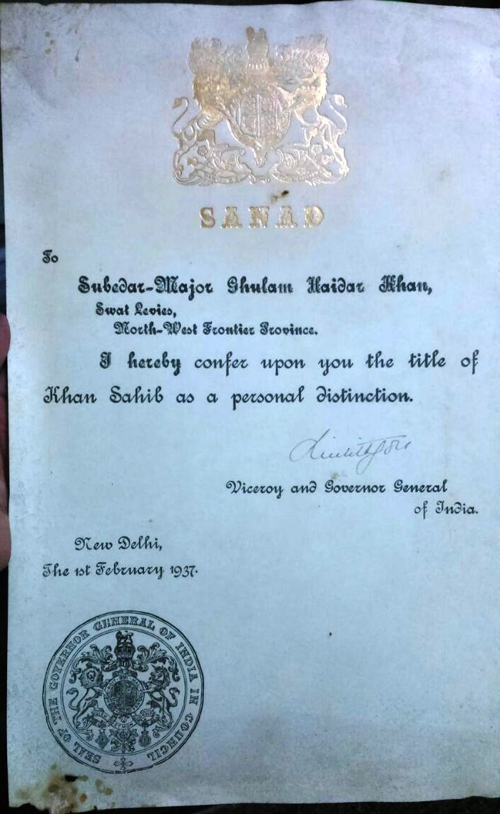 Sanad (Ghulam Haider Khan Subidar Major Swat Levies NWFP)